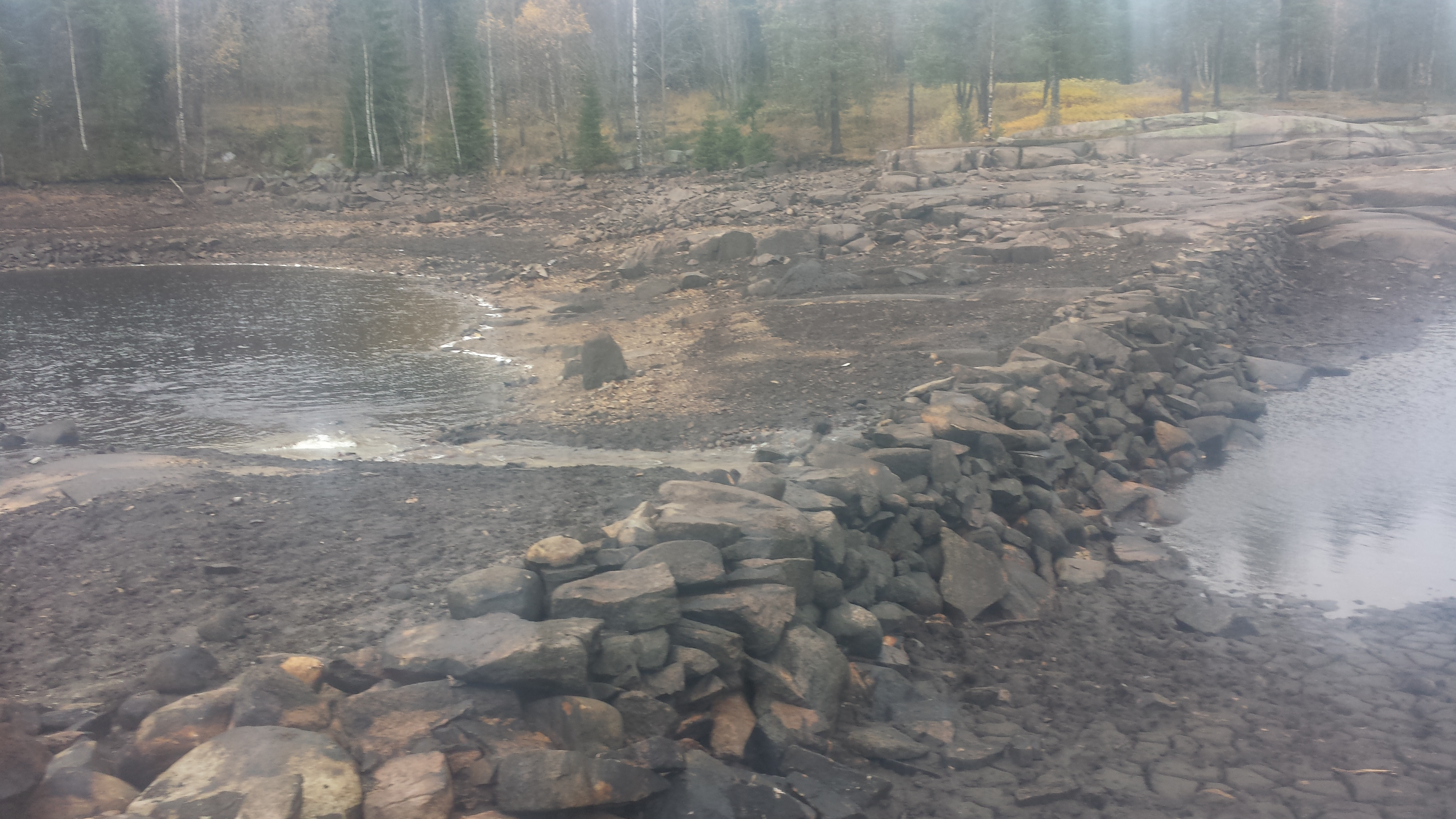 Bridge over Steinbruvannet, Oslo, Norway. Part of the Bergen Kings Road opened in 1793, submerged in 1875.